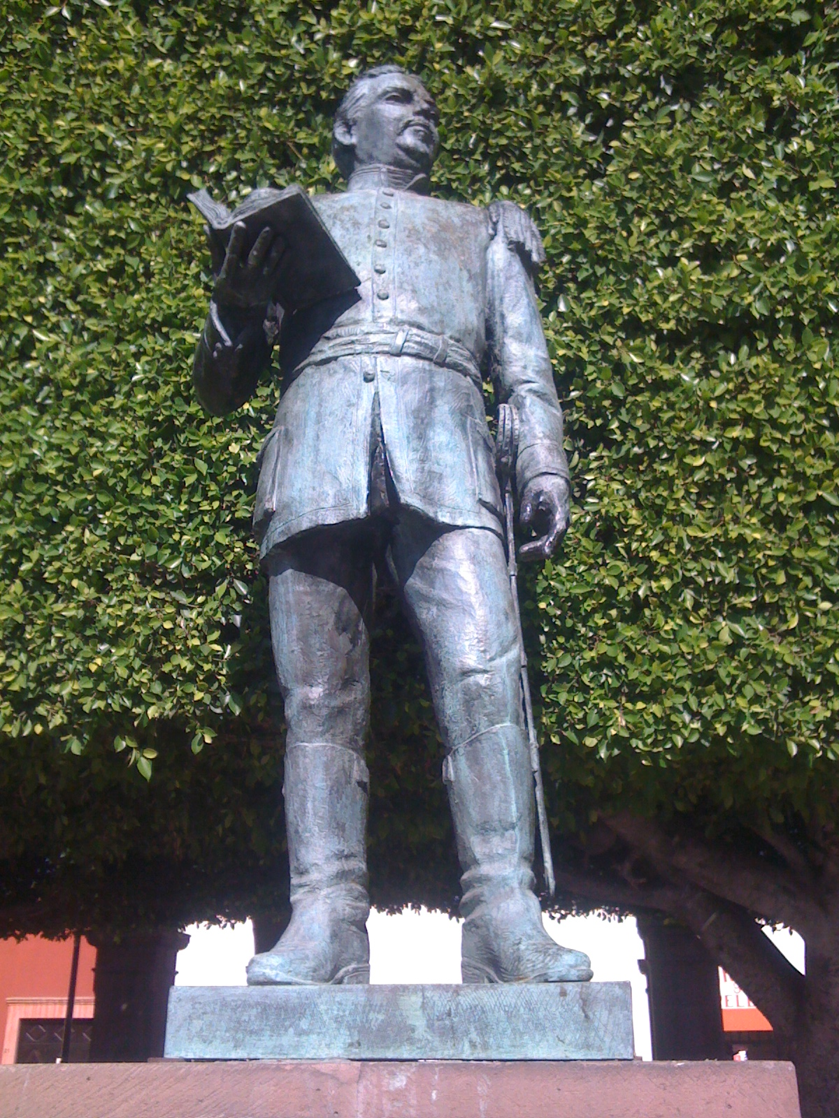 Bronze sculpture depicting General Jose Maria Arteaga Magallanes, located on Queretaro city, a work of artist Abraham Gonzalez.